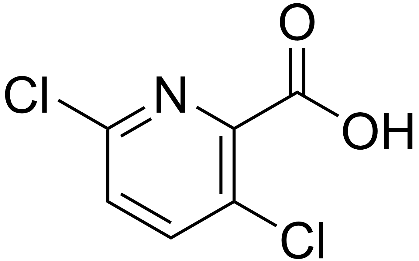 chemical structure of clopyralid